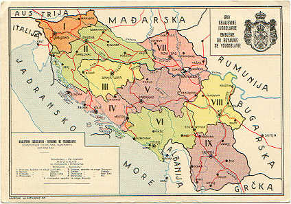 Map showing the Banovinas of Yugoslavia